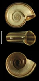 photo of apical, apertural and umbilical view of the shell of Marisa cornuarietis.